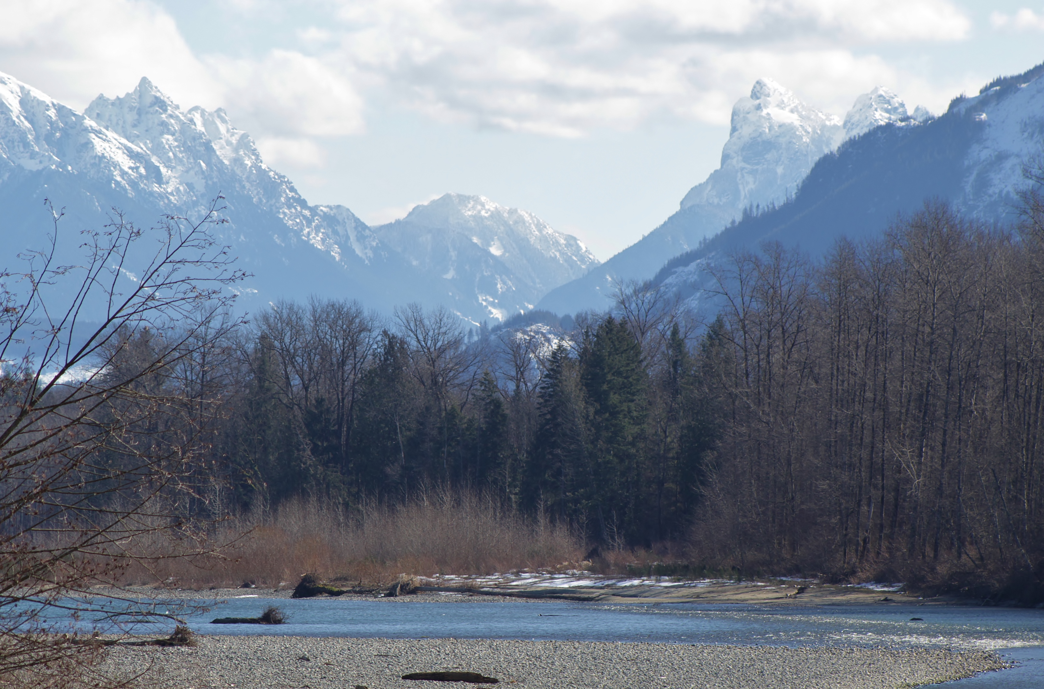 Looking east from the Mann Road bridge in Sultan, Washington at the Skykomish River and several peaks of the Cascades Range.